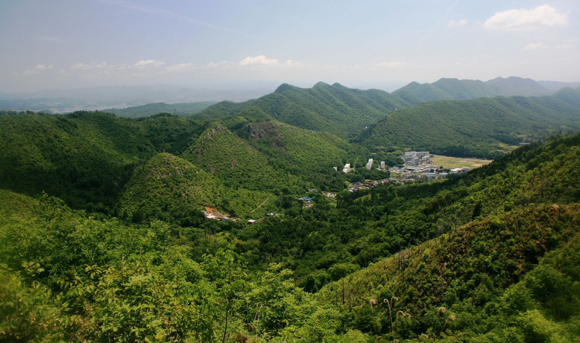 Kakamigahara_alps_from_Mount_Gongen